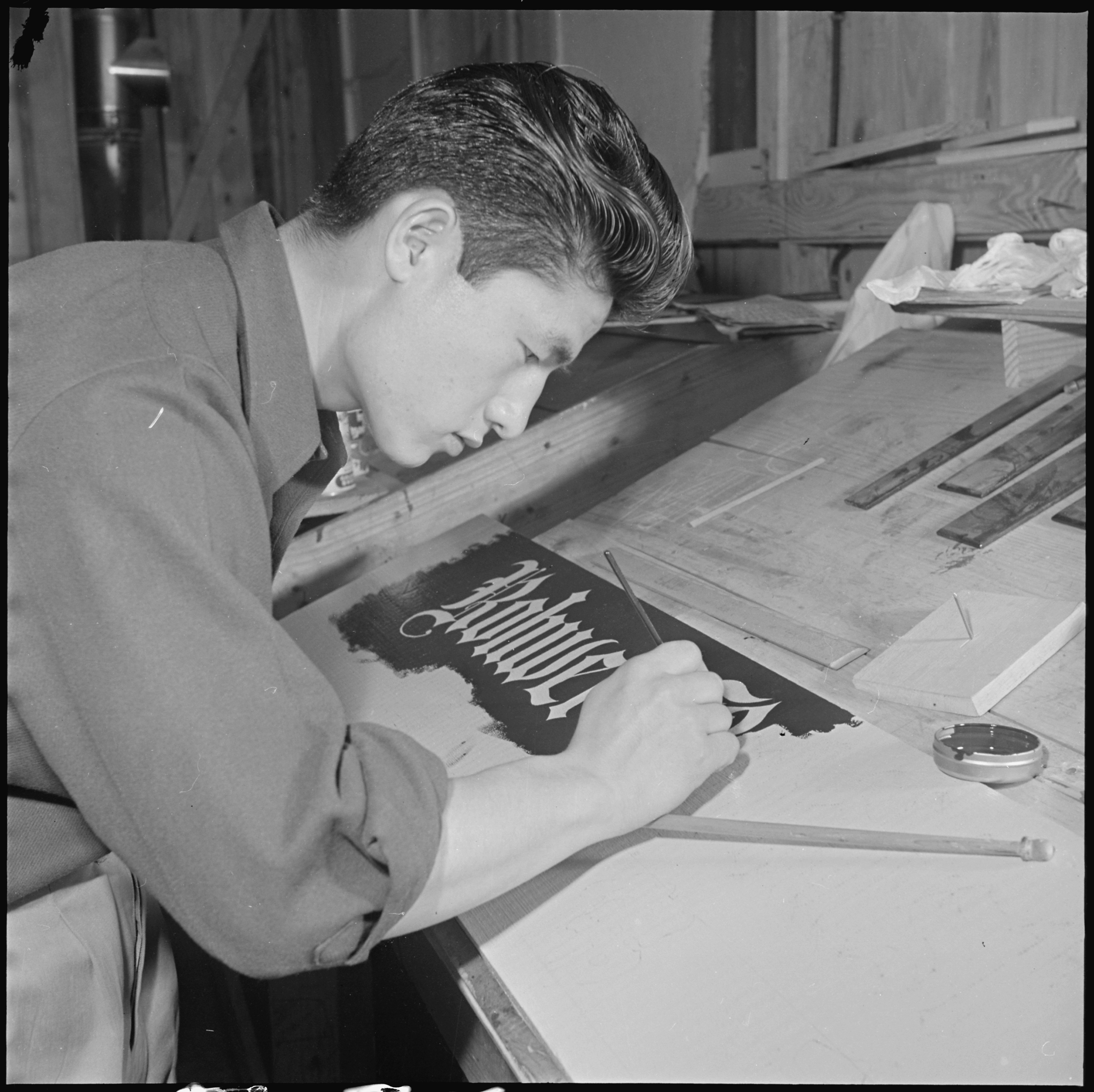 Scope and content: The full caption for this photograph reads: Rohwer Relocation Center, McGehee, Arkansas. Allen Hagio, a former California artist, preparing a sign in the sign shop at the Rohwer Relocation Center, where former west coast residents are temporarily residing.